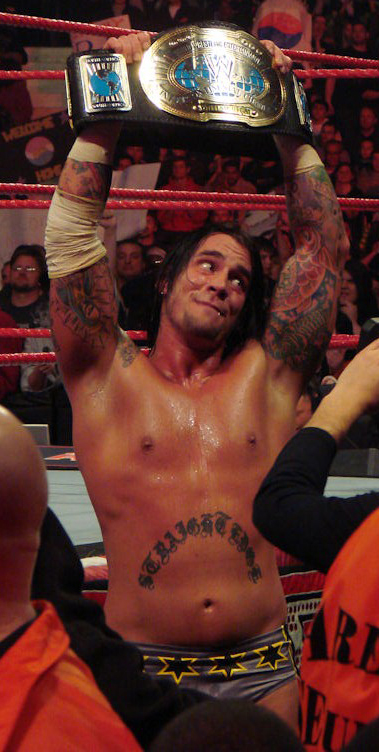 CM Punk celebrates winning the WWE Intercontinental Championship from William Regal in his hometown of Chicago, Illinois. From WWE Raw, January 19, 2009.